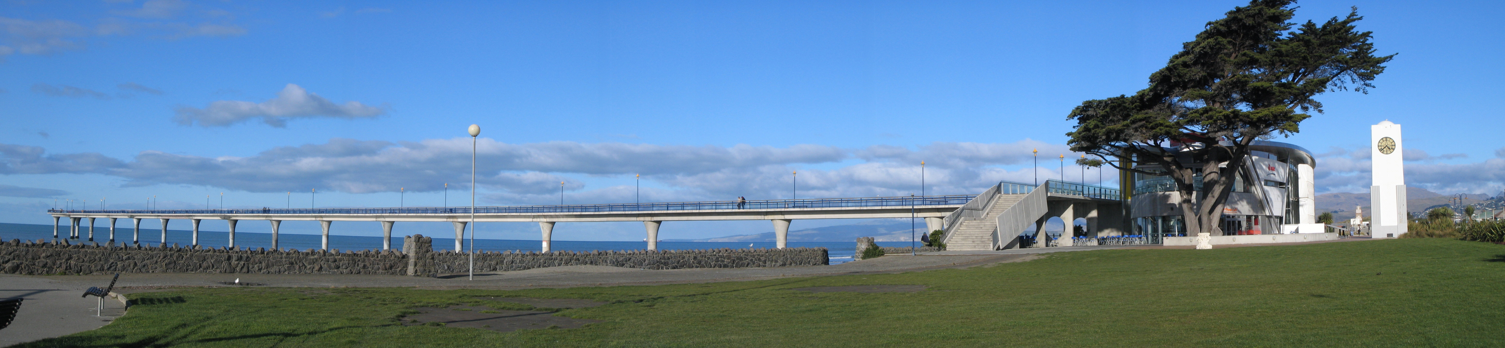 New Brighton Pier, Christchurch, New Zealand.